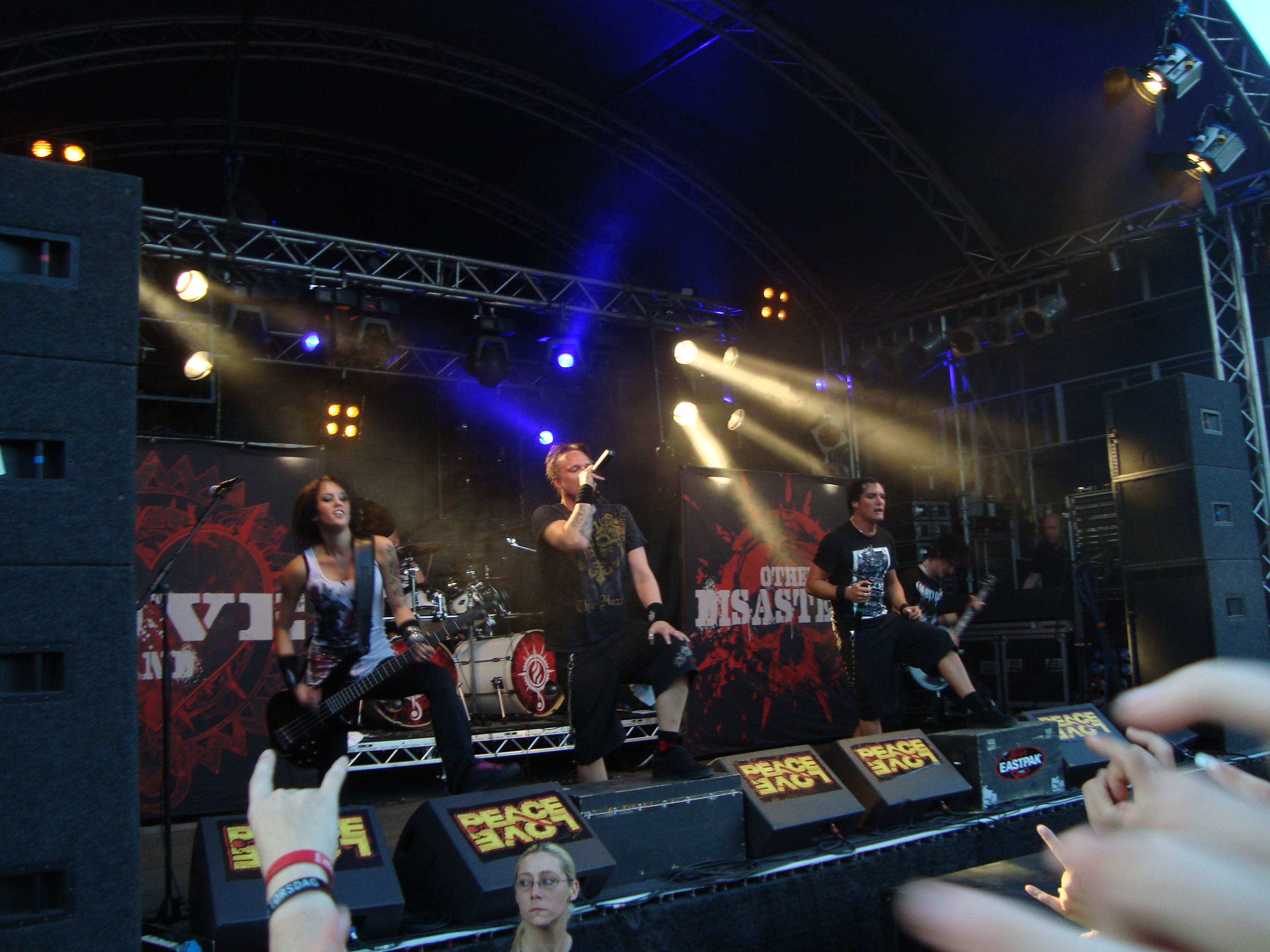 Metal group Sonic Syndicate at Peace and Love festival, Borlänge, Sweden.